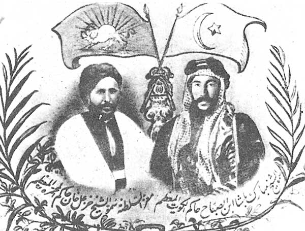 Sheikh Khaz'al ibn Jabir Al kaabi, was the ruler of the semi-autonomous Sheikhdom of Khorramshahr